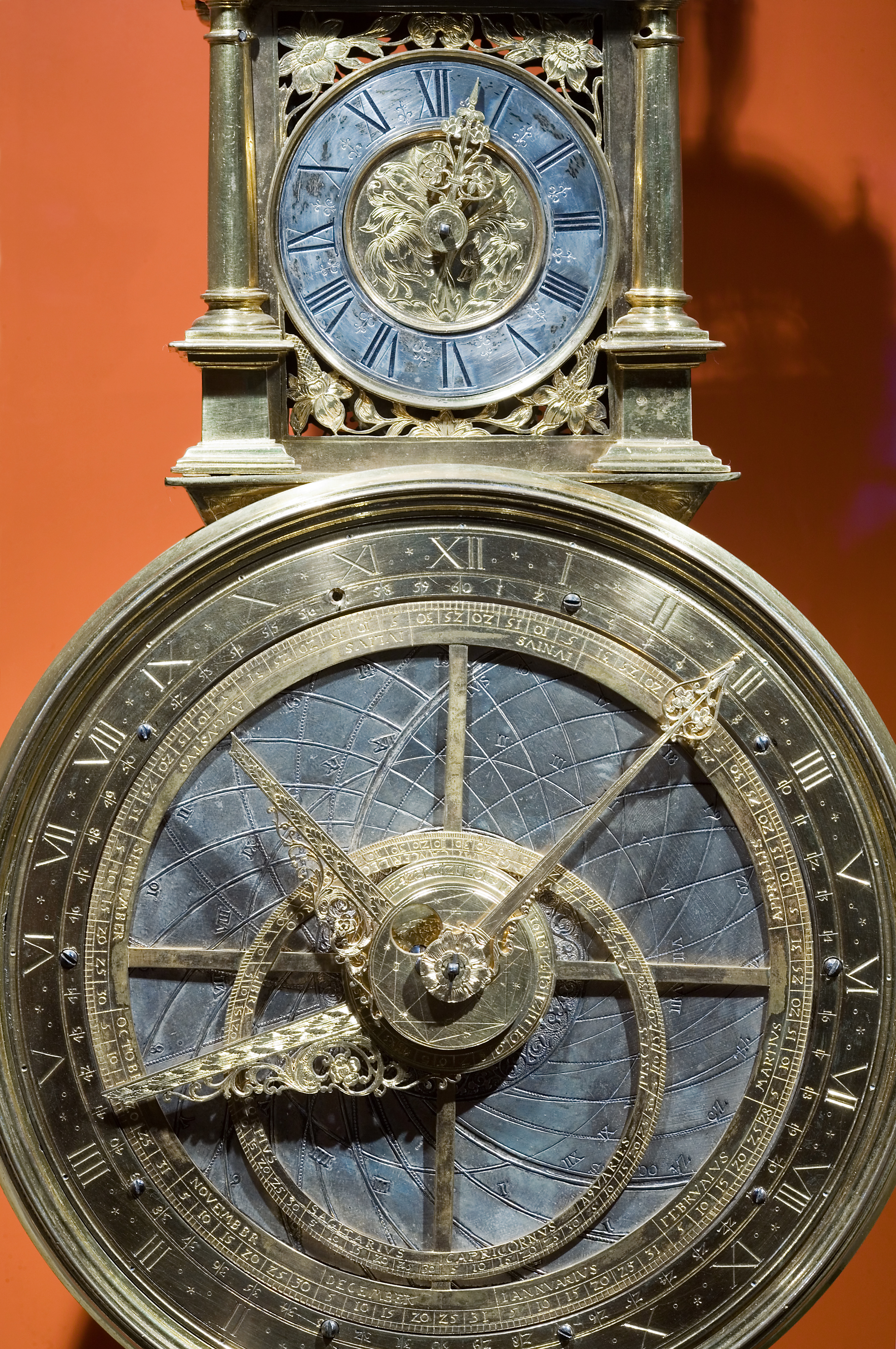 vintage clock